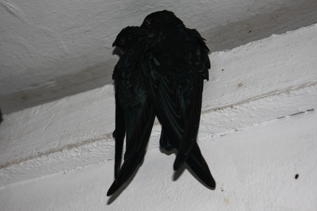 Resting on the balcony of the lodge I stayed in for the night (just outside Kinabalu Park headquarters). I hope they're never moved on to 'clean' the place up.